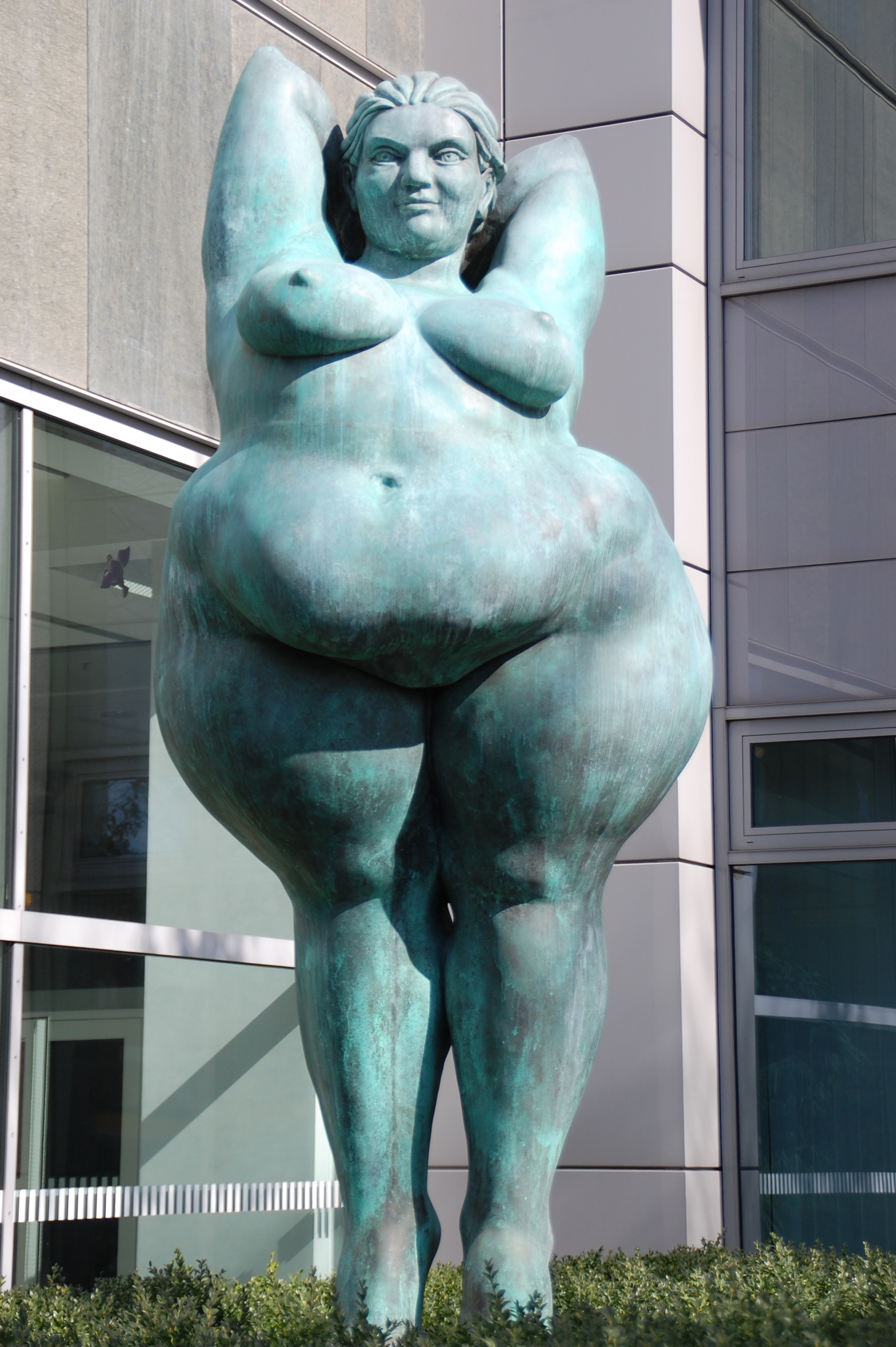 Statue "Yolanda" at the Investitionsbank Berlin, Germany